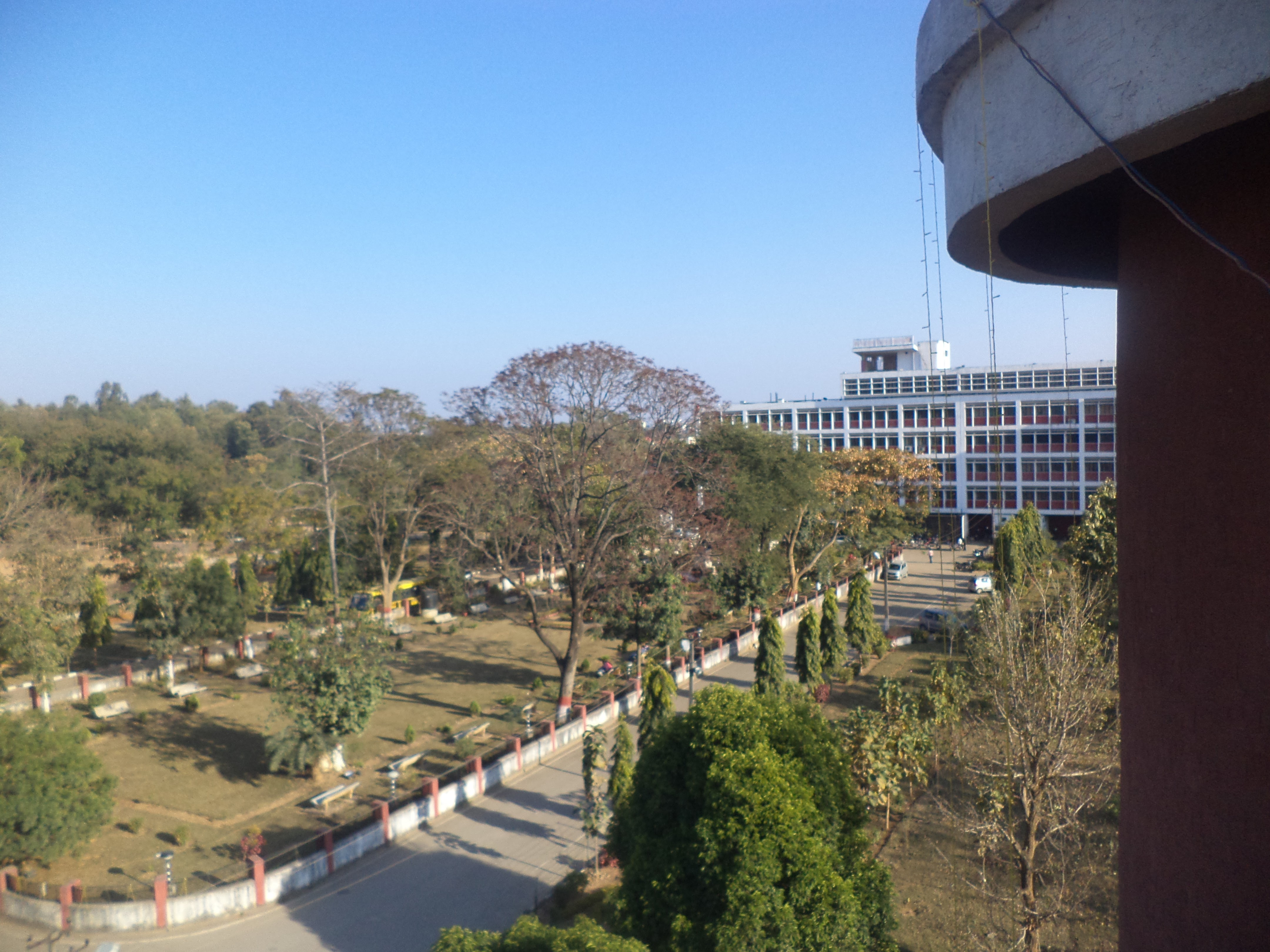 Rajendra park with statue of Dr Rajendra Prasad infront of academic complex.